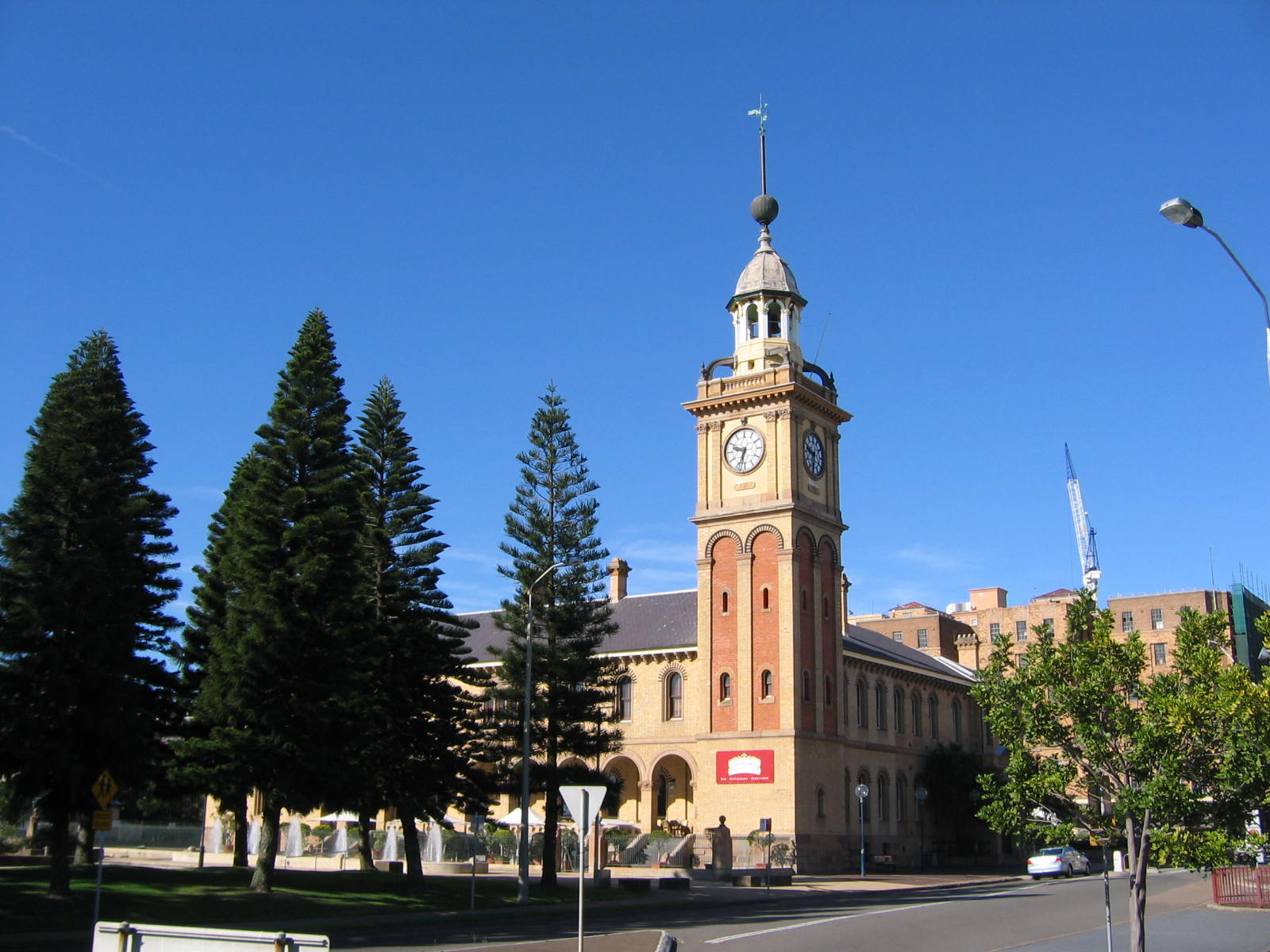 Newcastle Customs House - Newcastle, Australia